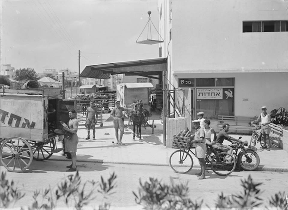 Tel Aviv, Cities in Israel